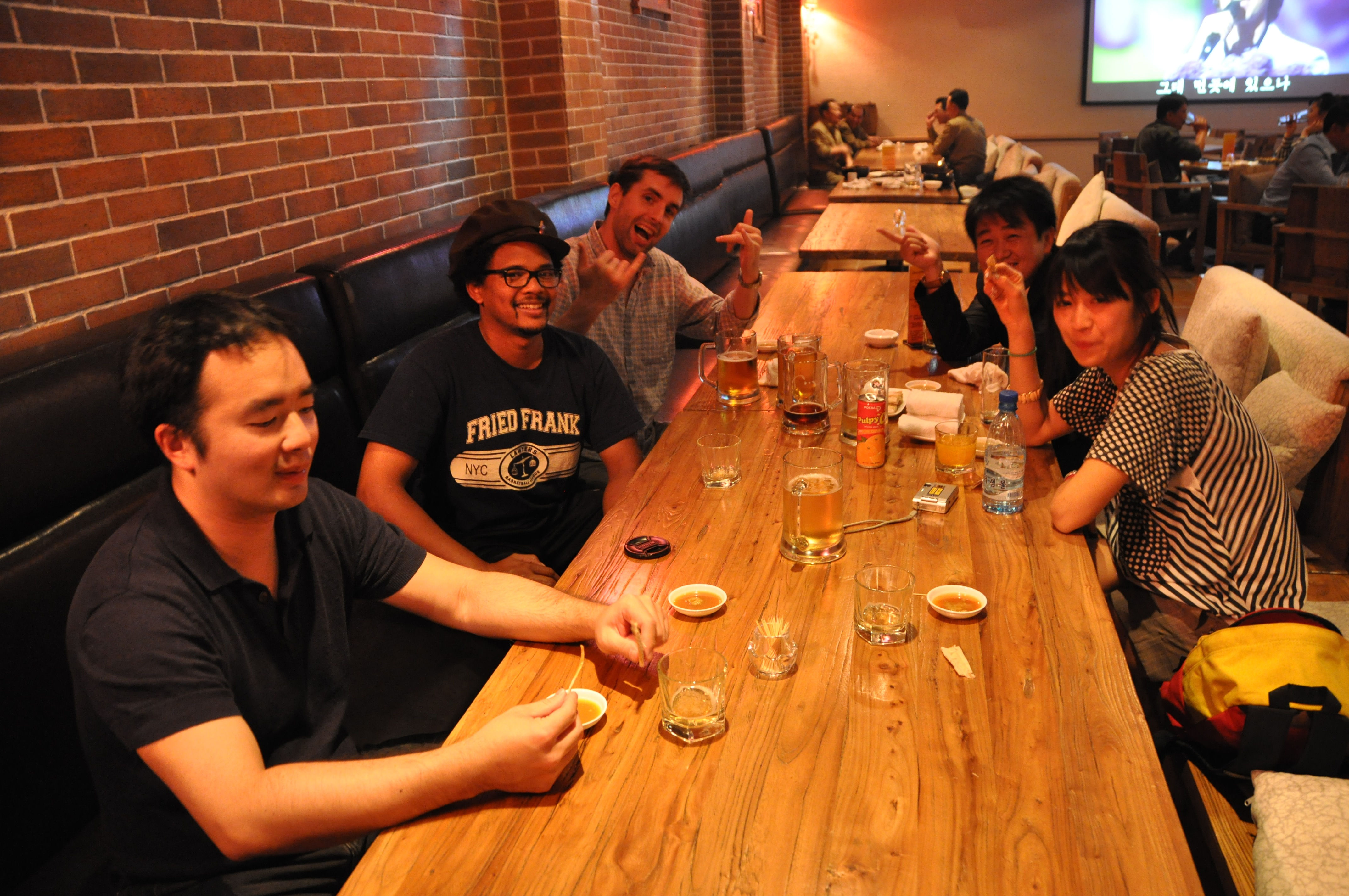 Uri Tours - Beer, Boats, Fishing and Guns Tour